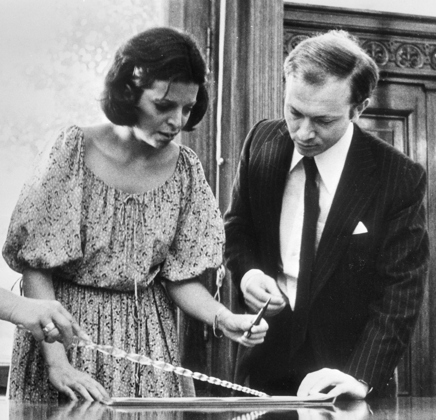 Marriage of Christina Onassis and Sergei Kauzov